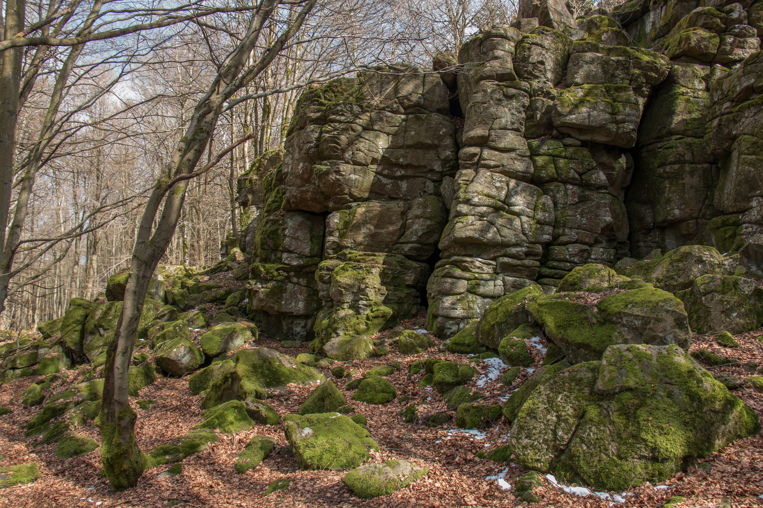 The basalt formation Großer Wolfstein between Bad Marienberg und Kirburg